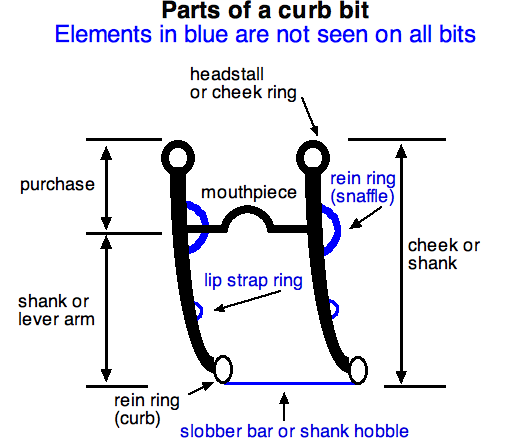 Diagram showing parts of a curb bit